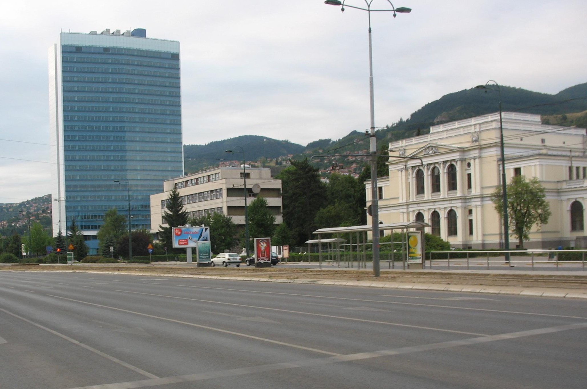 Building of bosnian parliament from the times of socialist Yugoslavia, after 2007 reconstruction